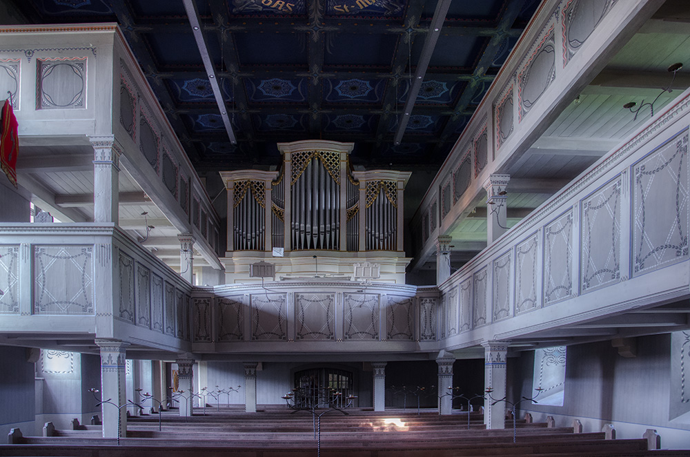 church of höckendorf (saxony)